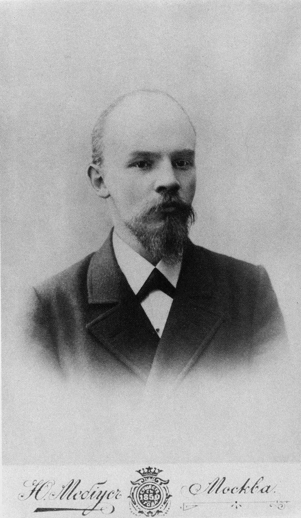 V. I. Ulyanov. Portrait. The middle of February, 1900. Moscow. Original positive. 6.3x9.4 cm Photographer: Y. Mebius